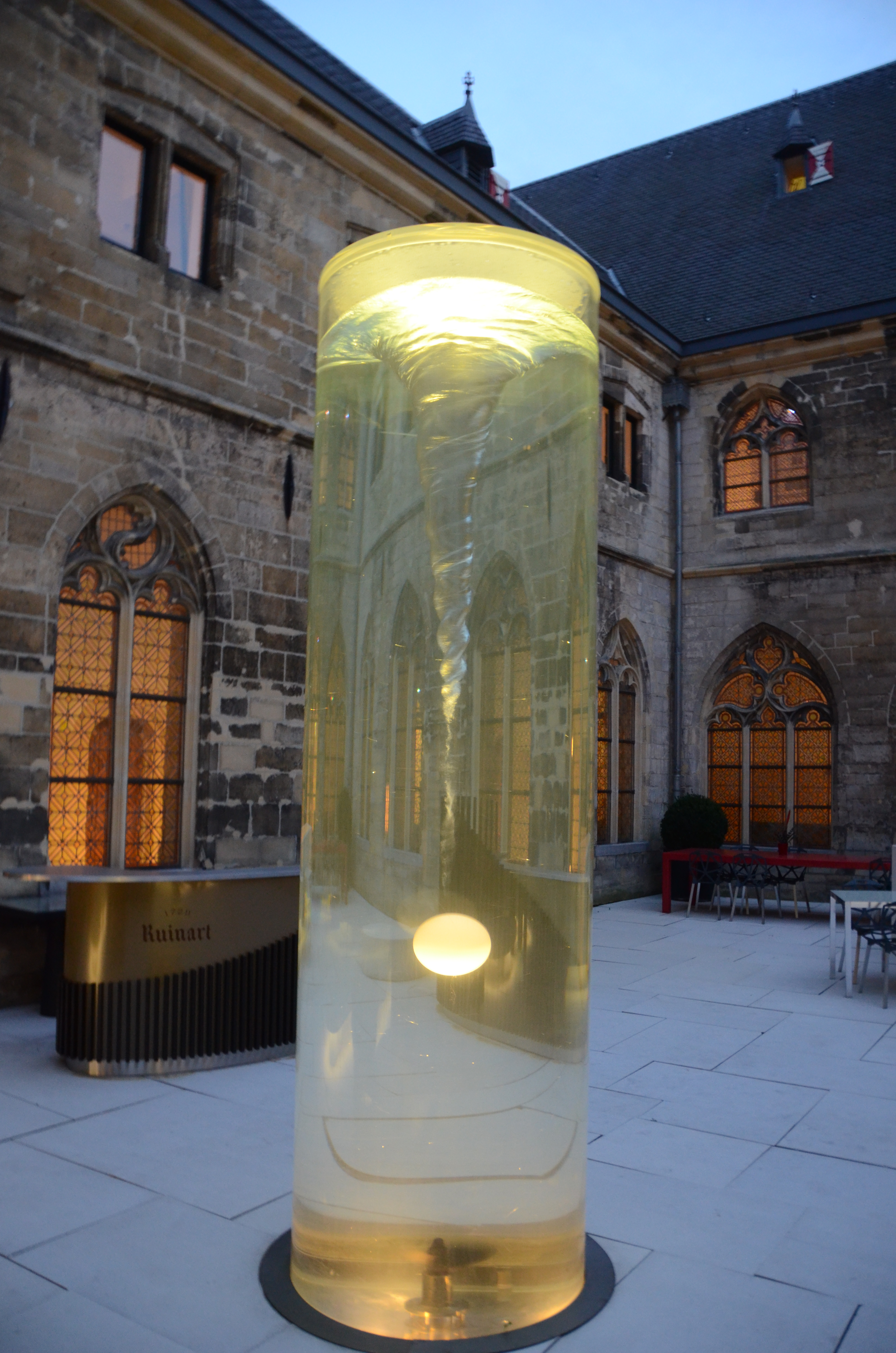 Playing with water and light: always very pleasant for looking when staying at the hotel terrace